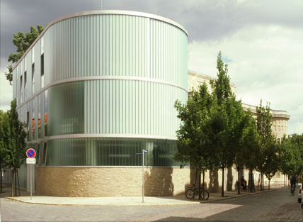 Conservation and restauration workshop of Landesmuseum für Vorgeschichte Sachsen-Anhalt in Halle, Germany